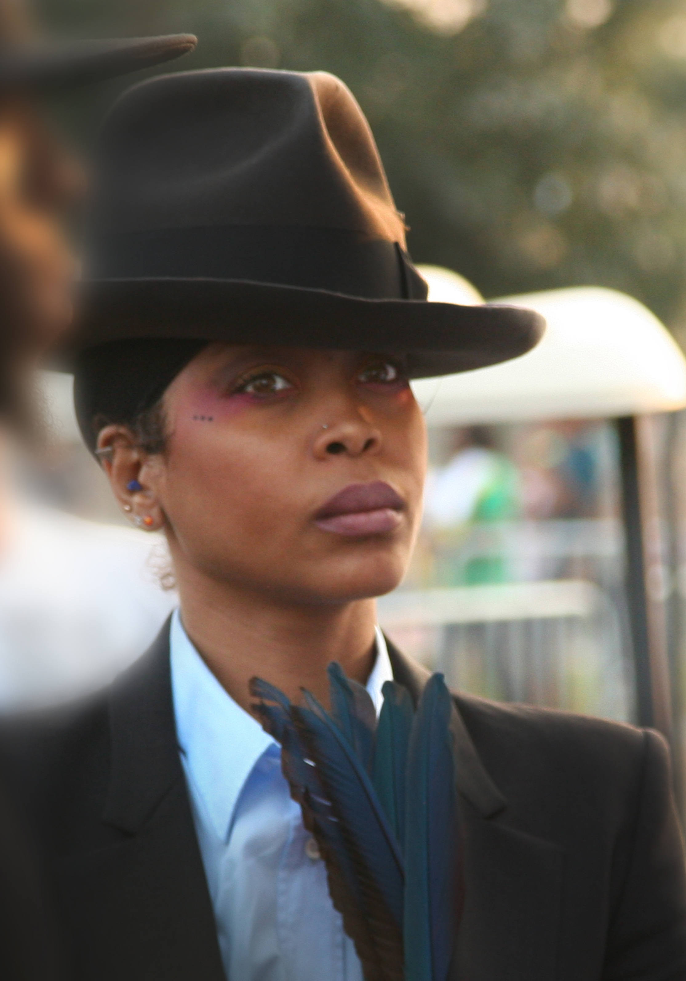 Photo of Erykah Badu backstage for Nation19 magazine